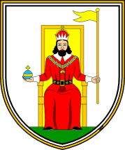 COA-Novo mesto